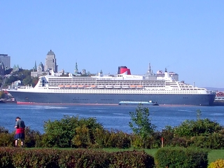 Le Queen Mary 2, front Québec city. First visit to Quebec in 2007.